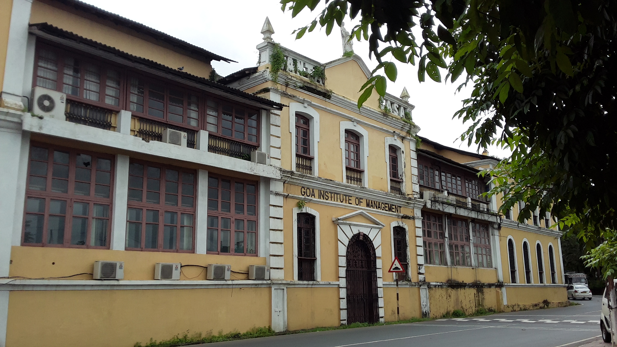 Old campus of Goa Institute of Management at Raibandar